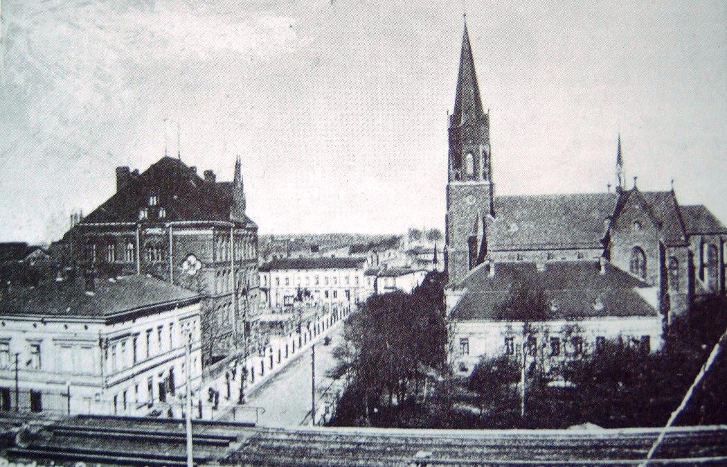 Lwowska Street in Katowice-Szopienice (1922)